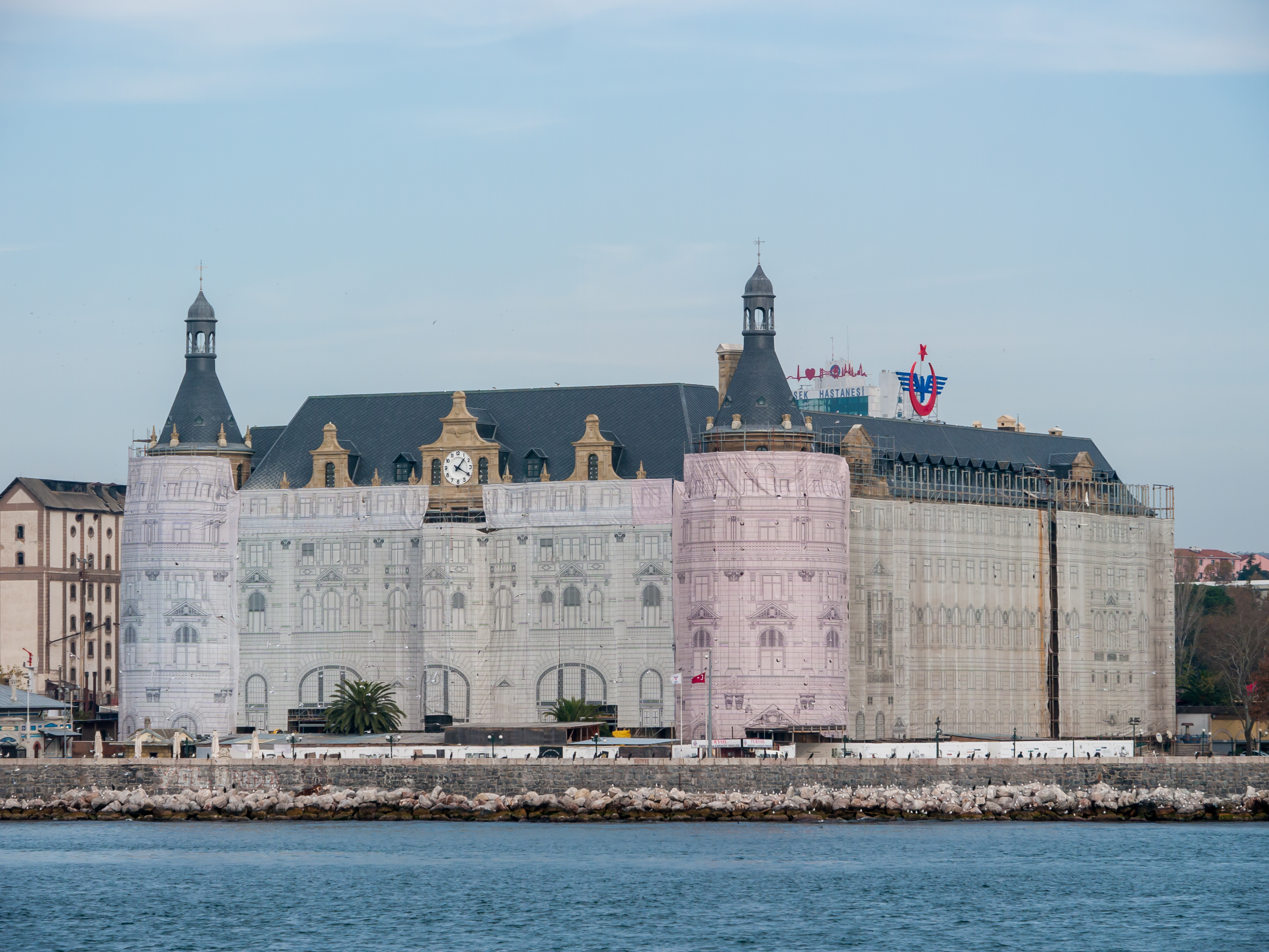 Haydarpasa Terminal